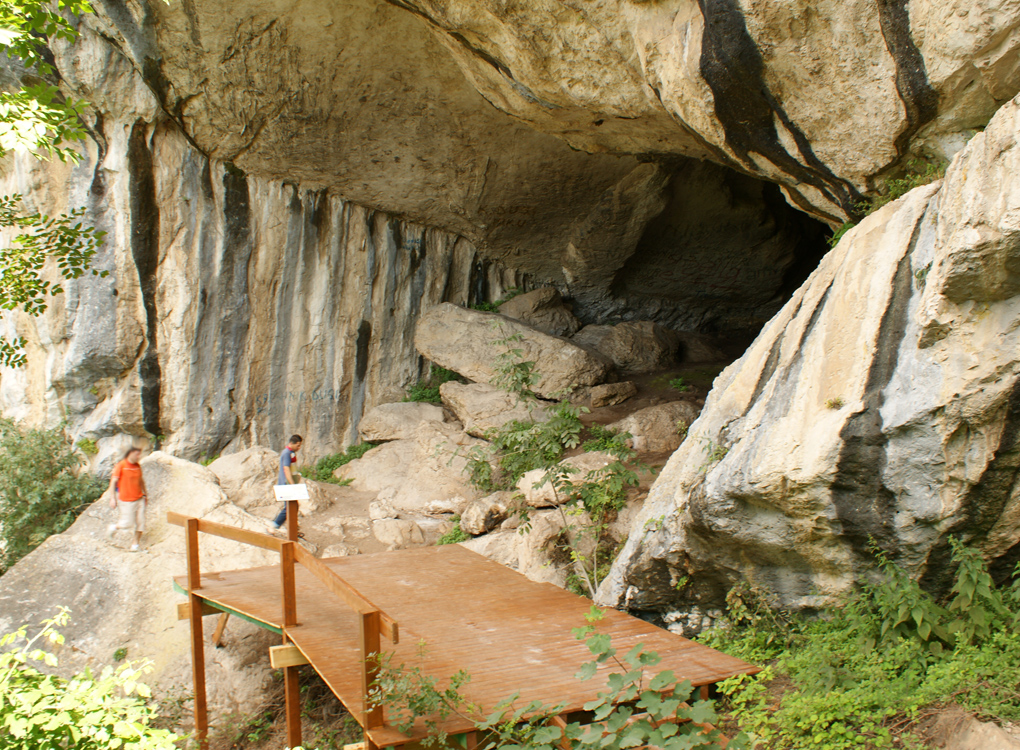 The cave Shpella e Zezë in Pëllumbas, south of Tirana, Albania